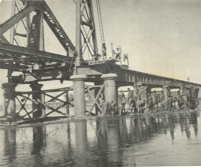 Chiromo Bridge in southern Malawi, under Reconstruction and Restructuring